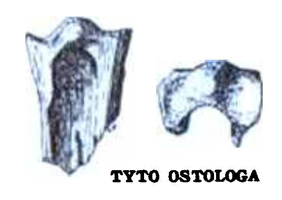 From Remains of birds from caves in the Republic of Haiti (Smithsonian Institution) Publication 2708 - October 17 1922.